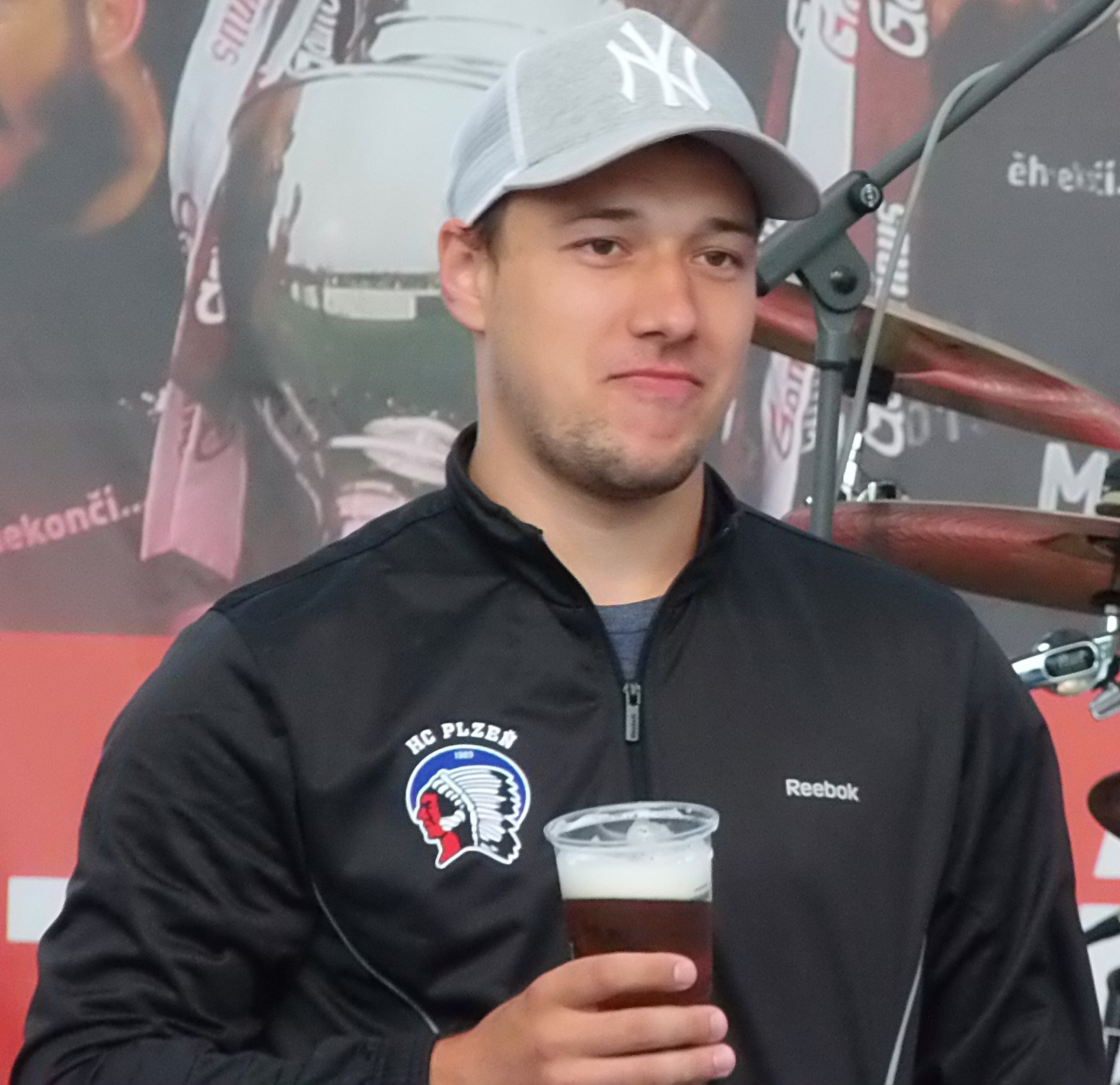 Jan Kovář player of HC Škoda Plzeň